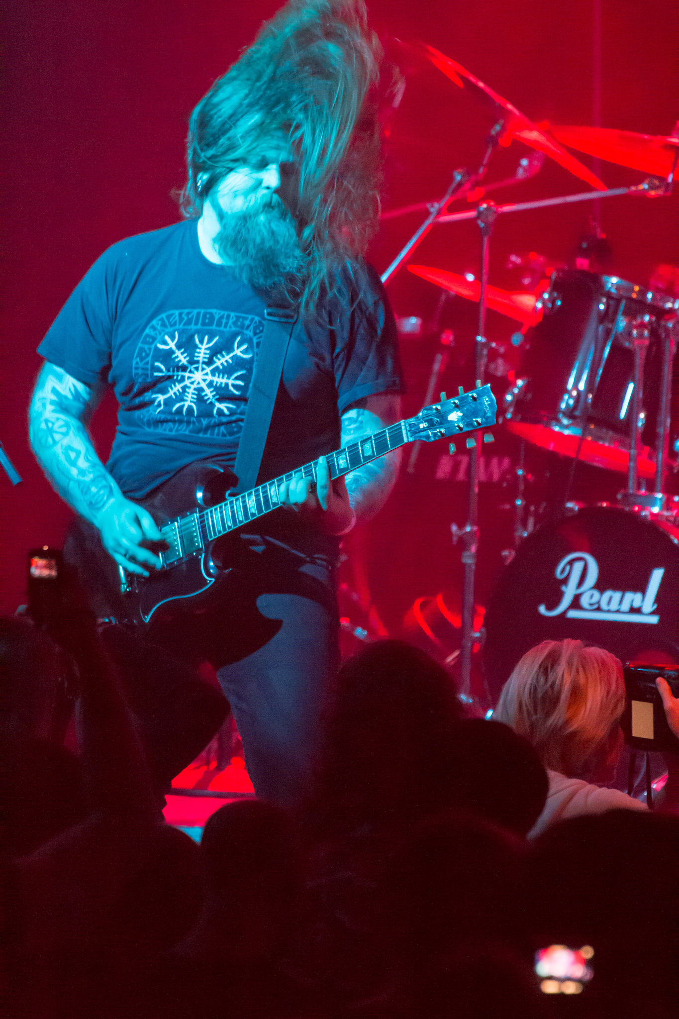 Enslaved playing on the "Barge to Hell" metal cruise in 2012